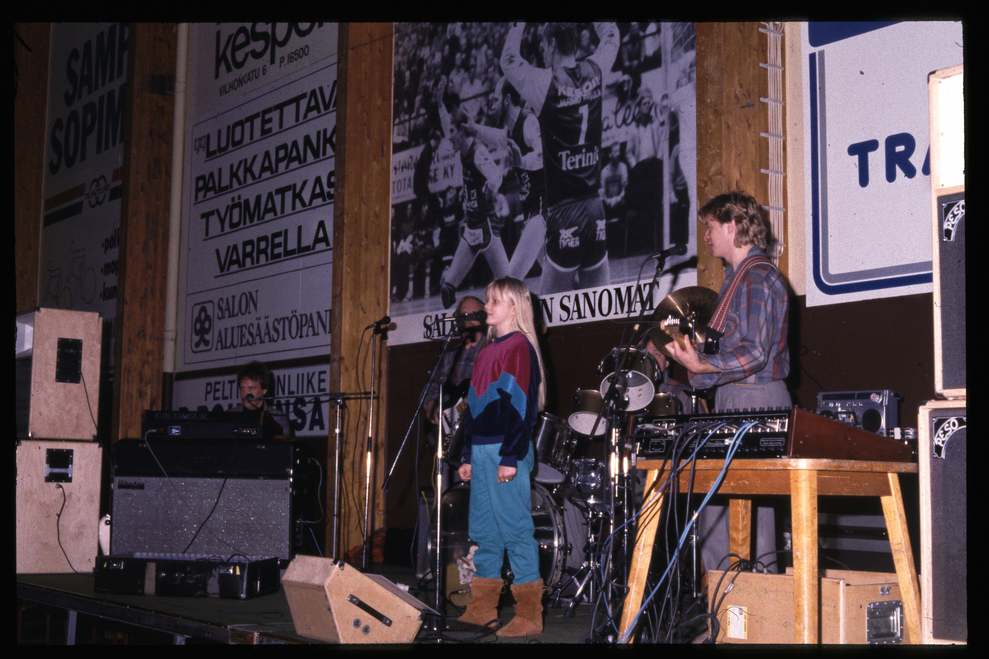 Jonna Tervomaa singing after her winning, with Timo Tervo to the right